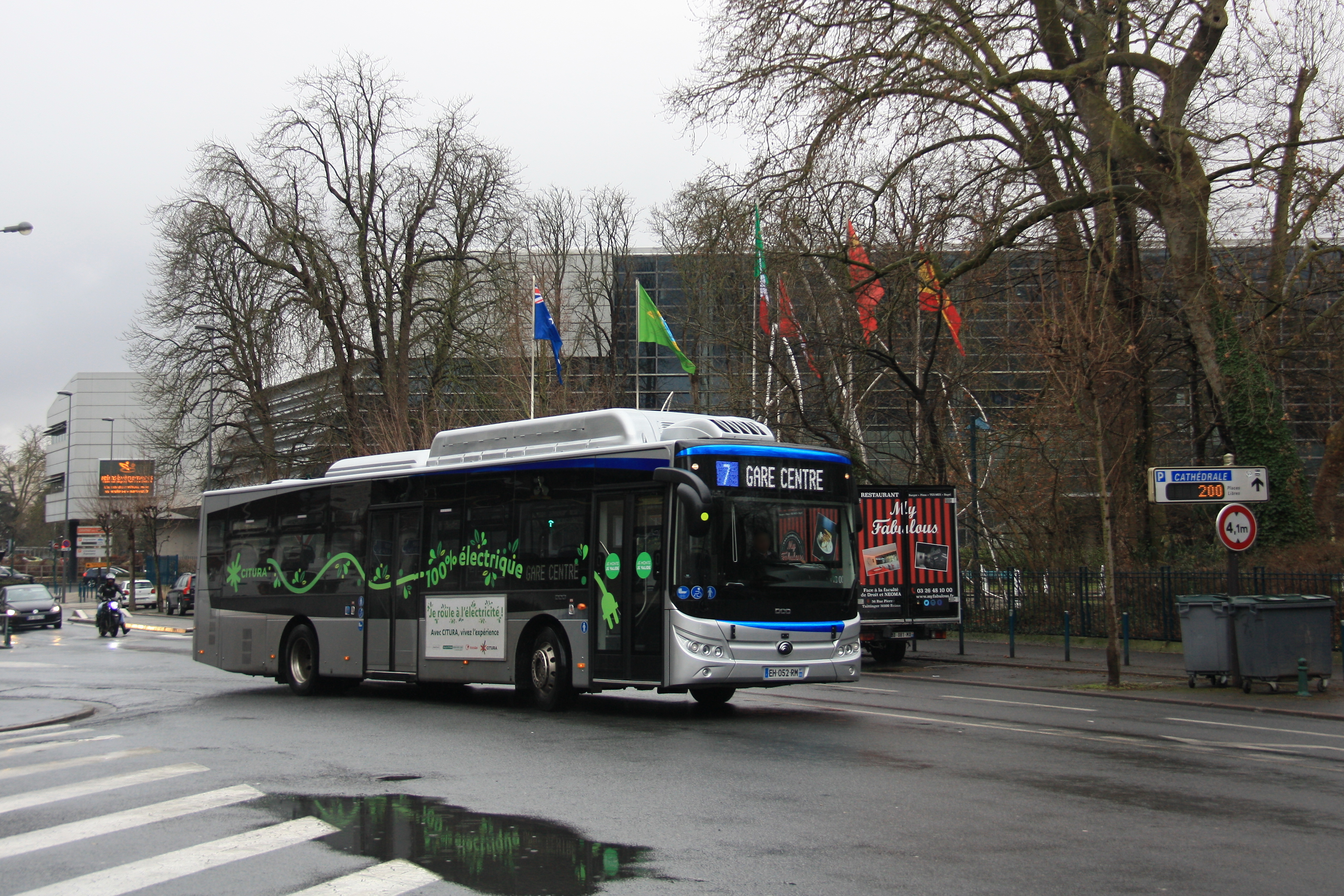 Yutong E12LF electric bus on test operation on Reims bus network